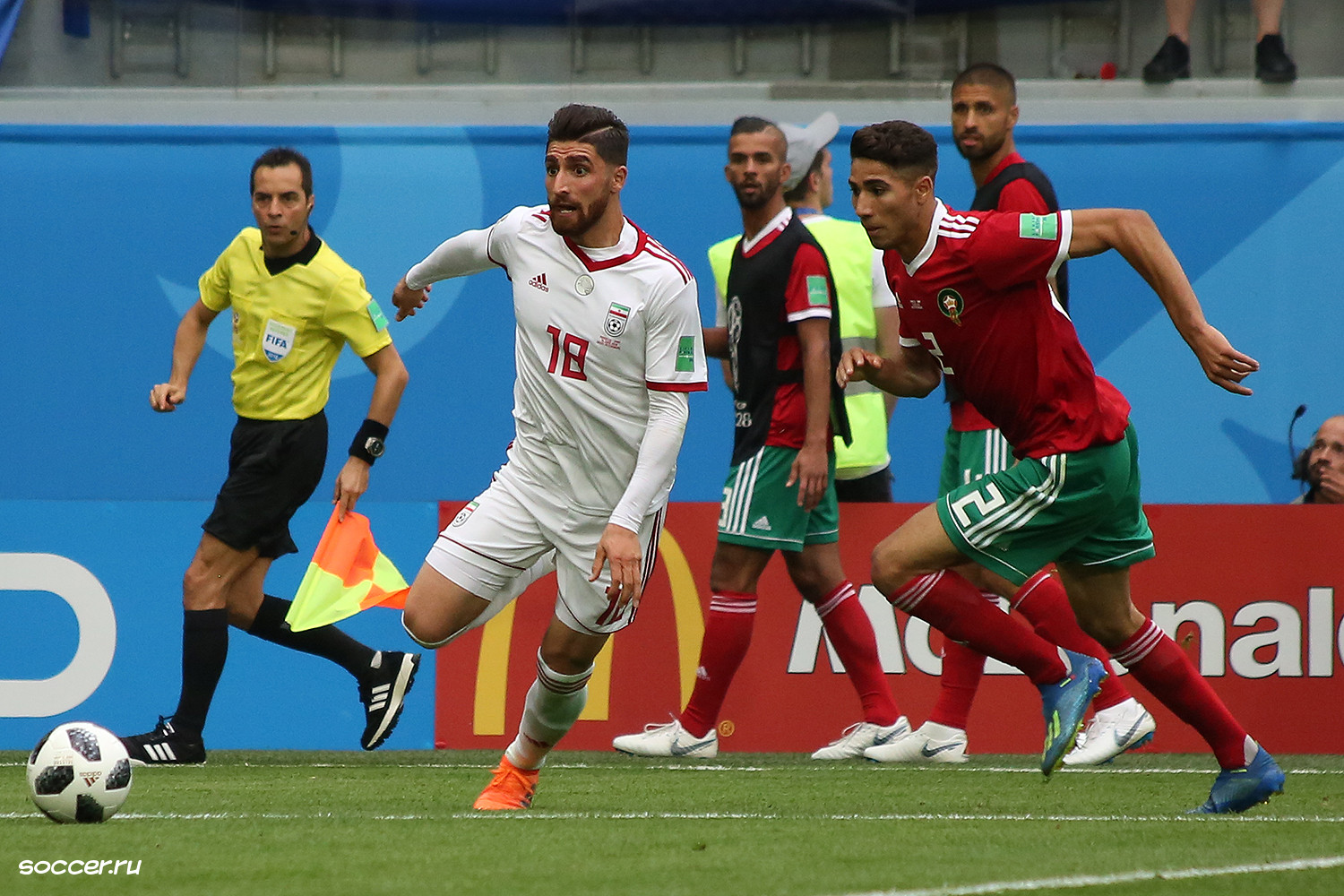 Iran-Morocco match, 2018 FIFA World Cup